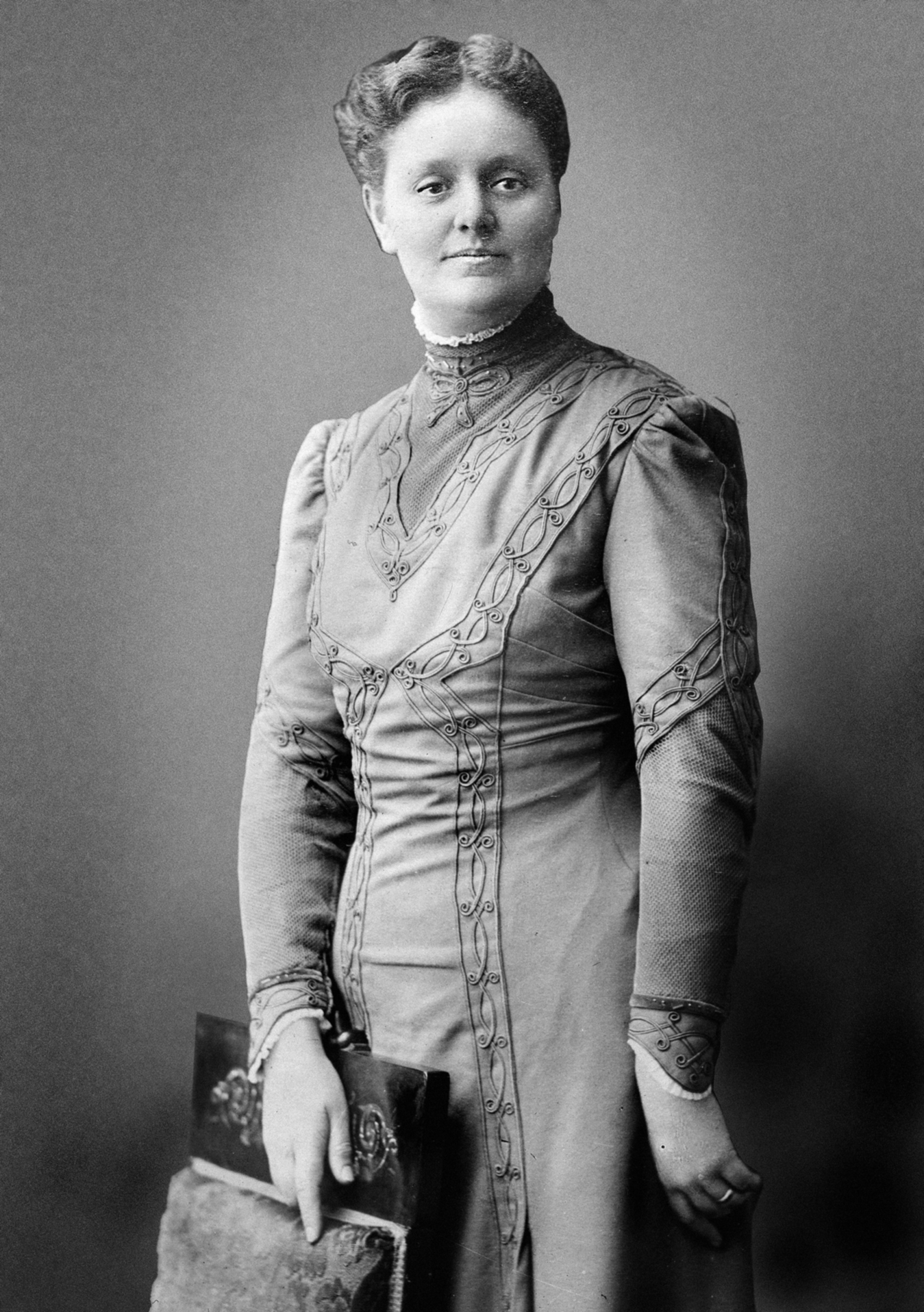 Bain News Service, publisher. Mrs. Susan W. Fitzgerald circa 1910-1913 [between 1910 and 1915] 1 negative : glass ; 5 x 7 in. or smaller. Notes: Title from unverified data provided by the Bain News Service on the negatives or caption cards. Forms part of: George Grantham Bain Collection (Library of Congress). Format: Glass negatives. This image is available from the United States Library of Congress's Prints and Photographs division under the digital ID ggbain.11907.This tag does not indicate the copyright status of the attached work. A normal copyright tag is still required. See Commons:Licensing for more information.